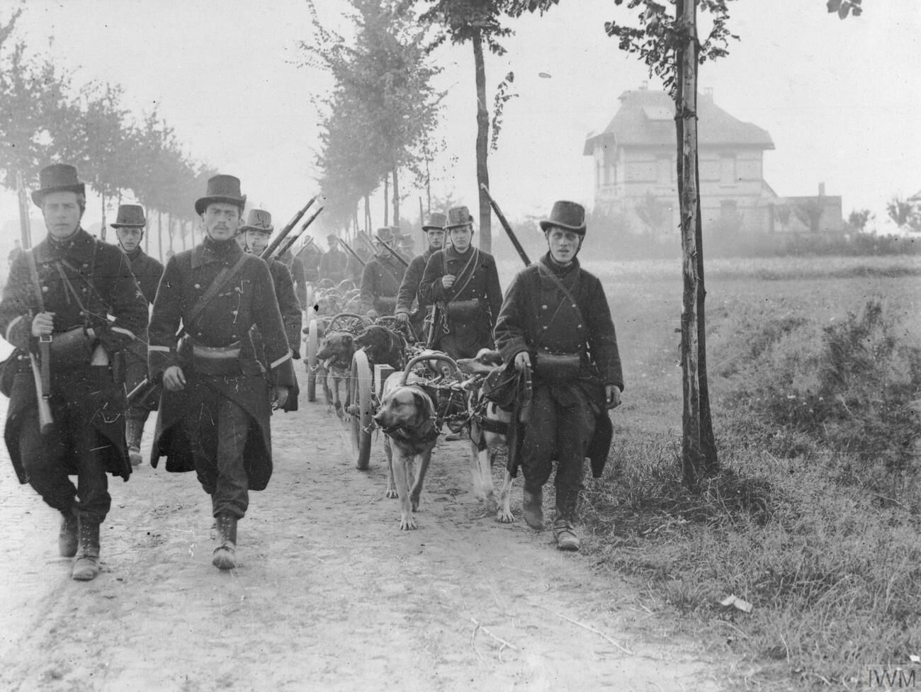 The Battle of Frontiers, August-september 1914 Belgian Carabiniers with dog drawn machine gun carts move up to oppose the advancing German Army during the retreat to Antwerp, 20 August 1914.